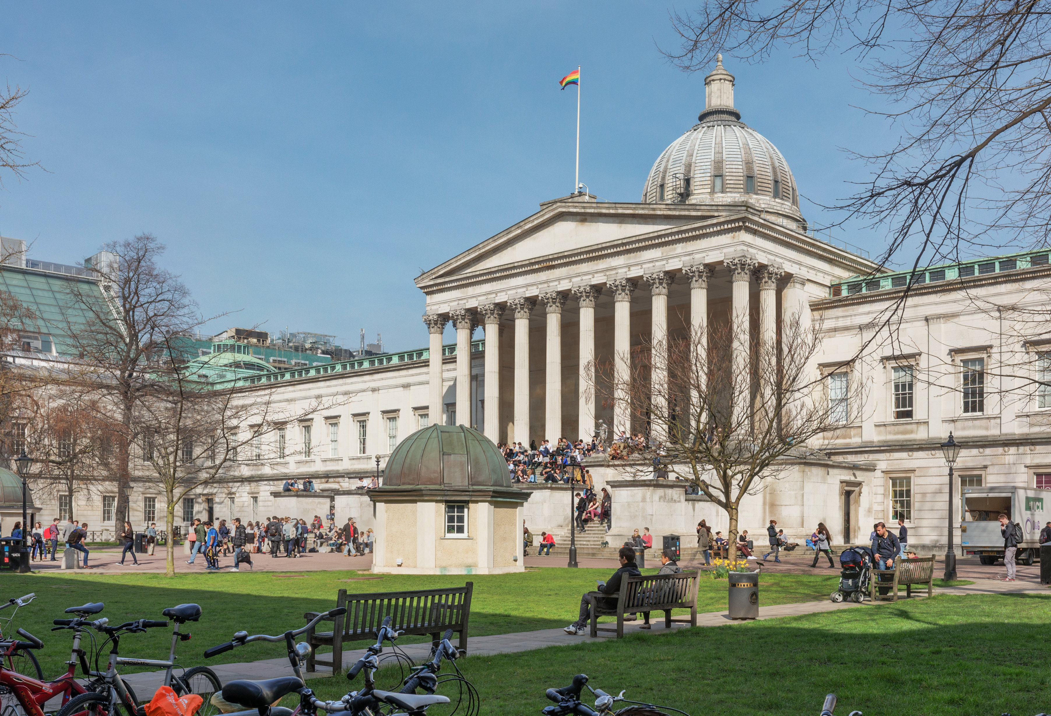 The Wilkins Building, University College London, Gower Street, Bloomsbury, London, England